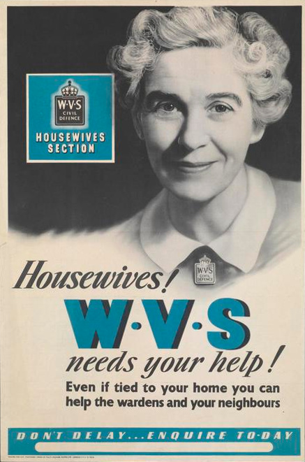 Housewives! Wvs Needs Your Help!